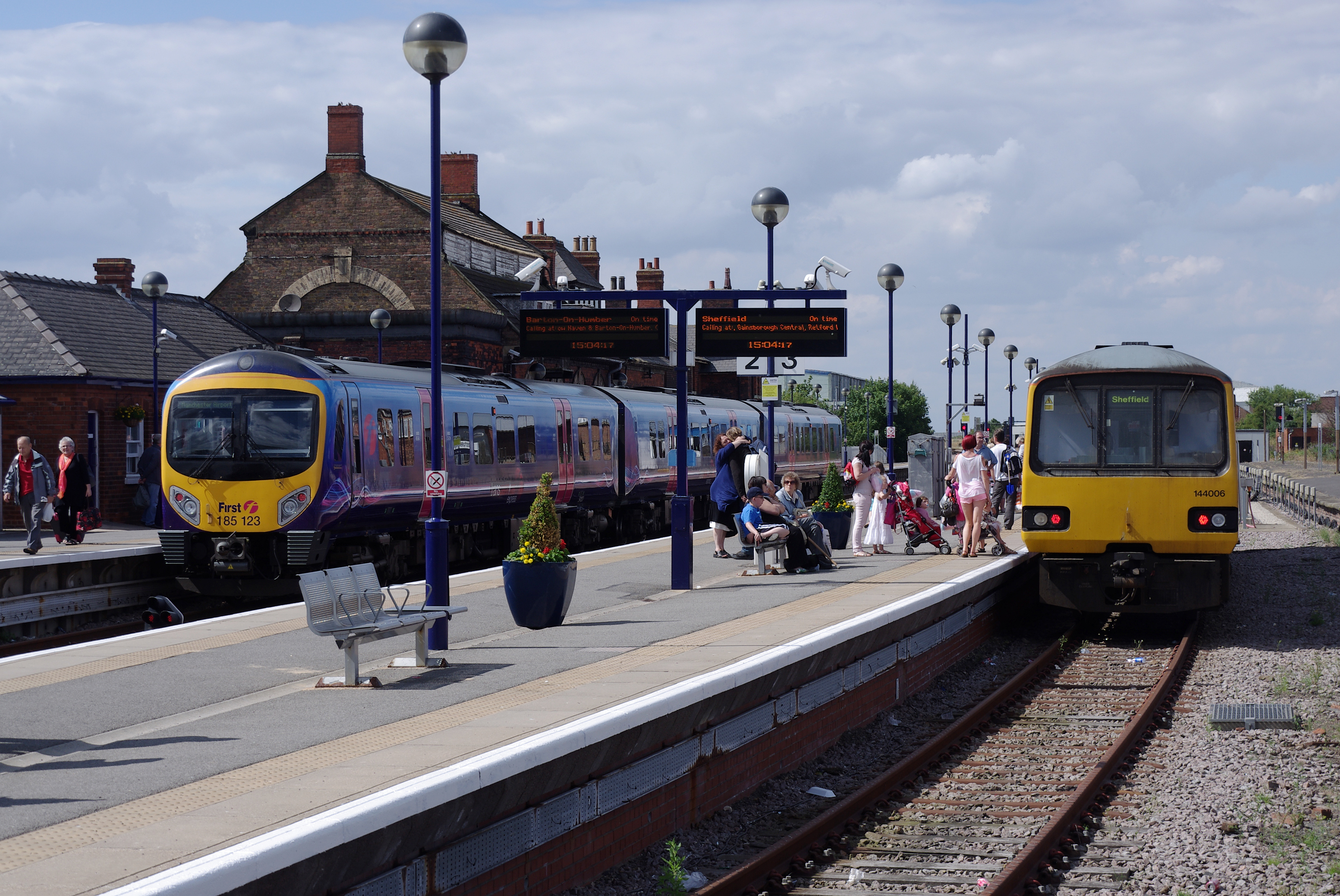 First TransPennine Express class 185 "Desiro/Pennine" DMU 185123 stands at Cleethorpes, preparing for a South Transpennine service to Manchester Airport; alongside is Northern Rail class 144 "Pacer" DMU 144006 with a (Saturdays only) service to Sheffield via Gainsbrough Central.